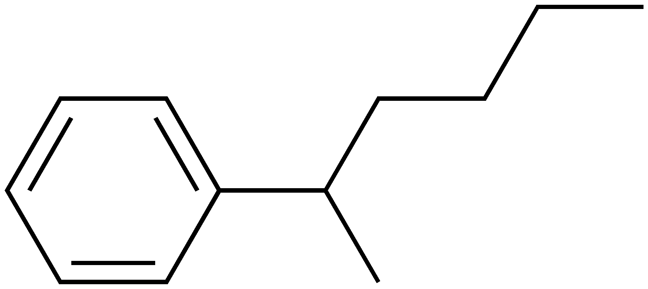 2-phenyl-hexane. High-resolution black/white .PNG made with ChemDraw and Paint.